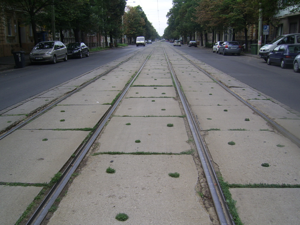 Tracks of the tram line 1 before the great reconstruction in 2009; Szeged, Hungary